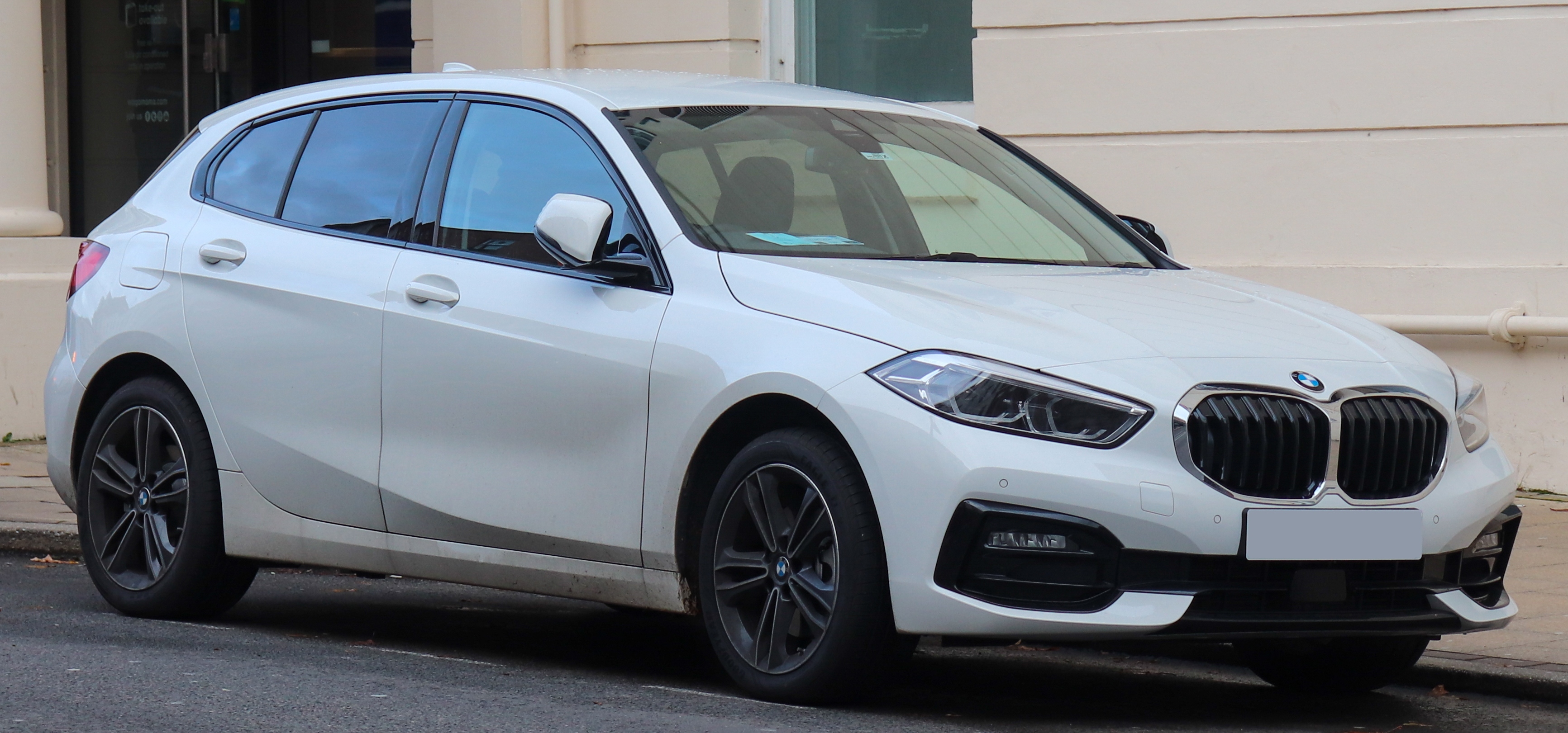 2019 BMW 118i 1.5 Front Taken in Leamington Spa